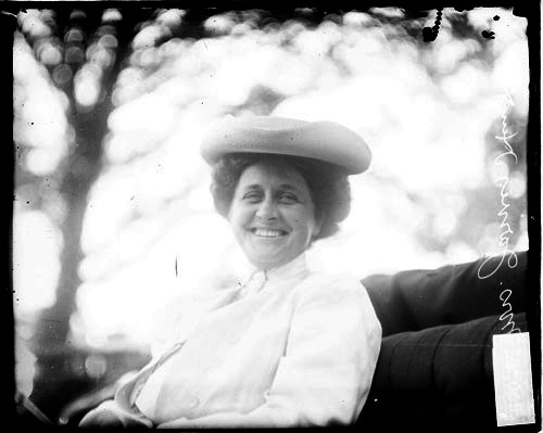 Mrs. Jarvis Hunt, wife of Chicago architect Jarvis Hunt, sitting in a carriage. Head and shoulders portrait.